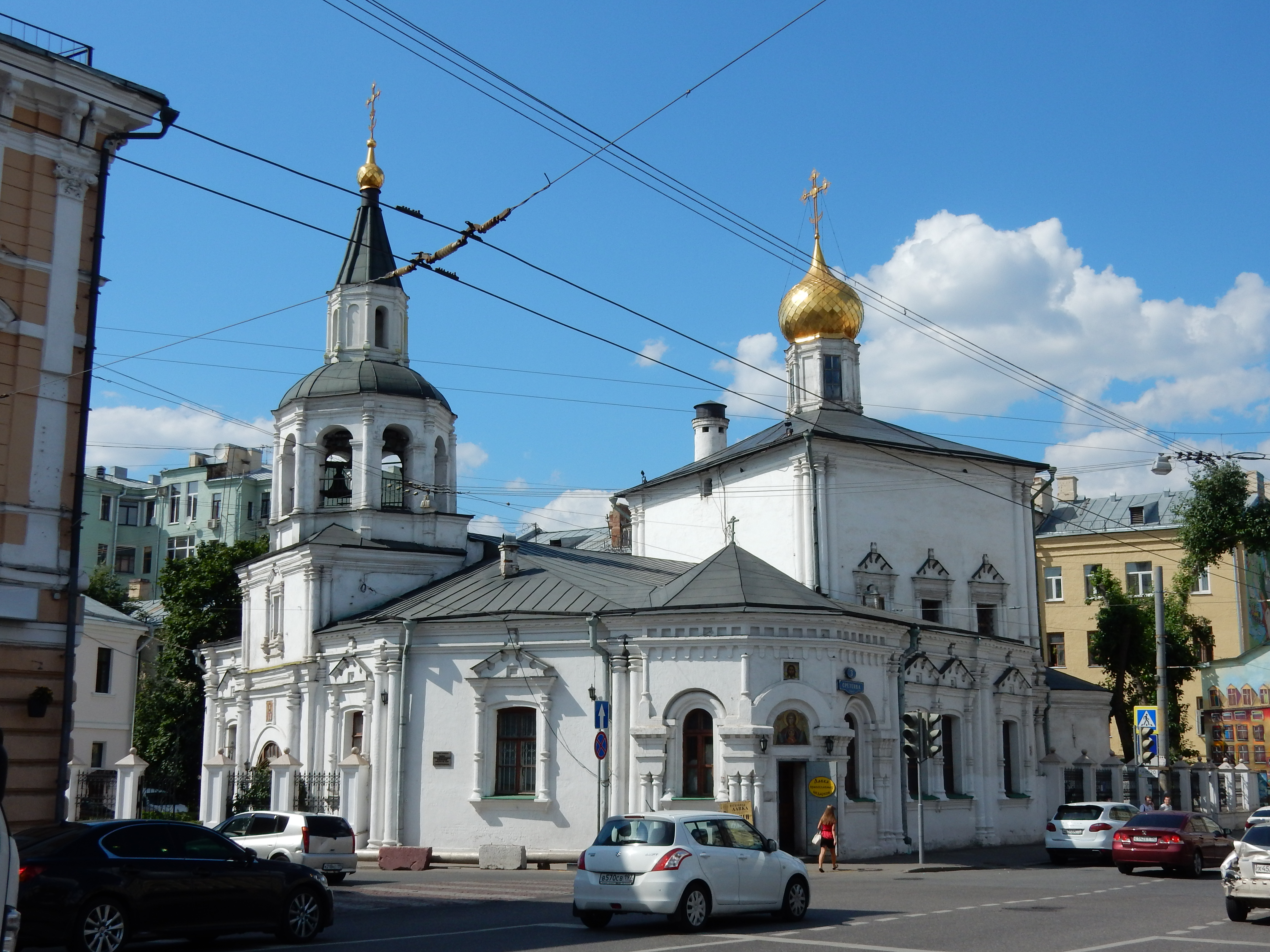 Moscow, Sretenka 3, Church of the Dormition of the Theotokos in Pechatniki. July 2014.